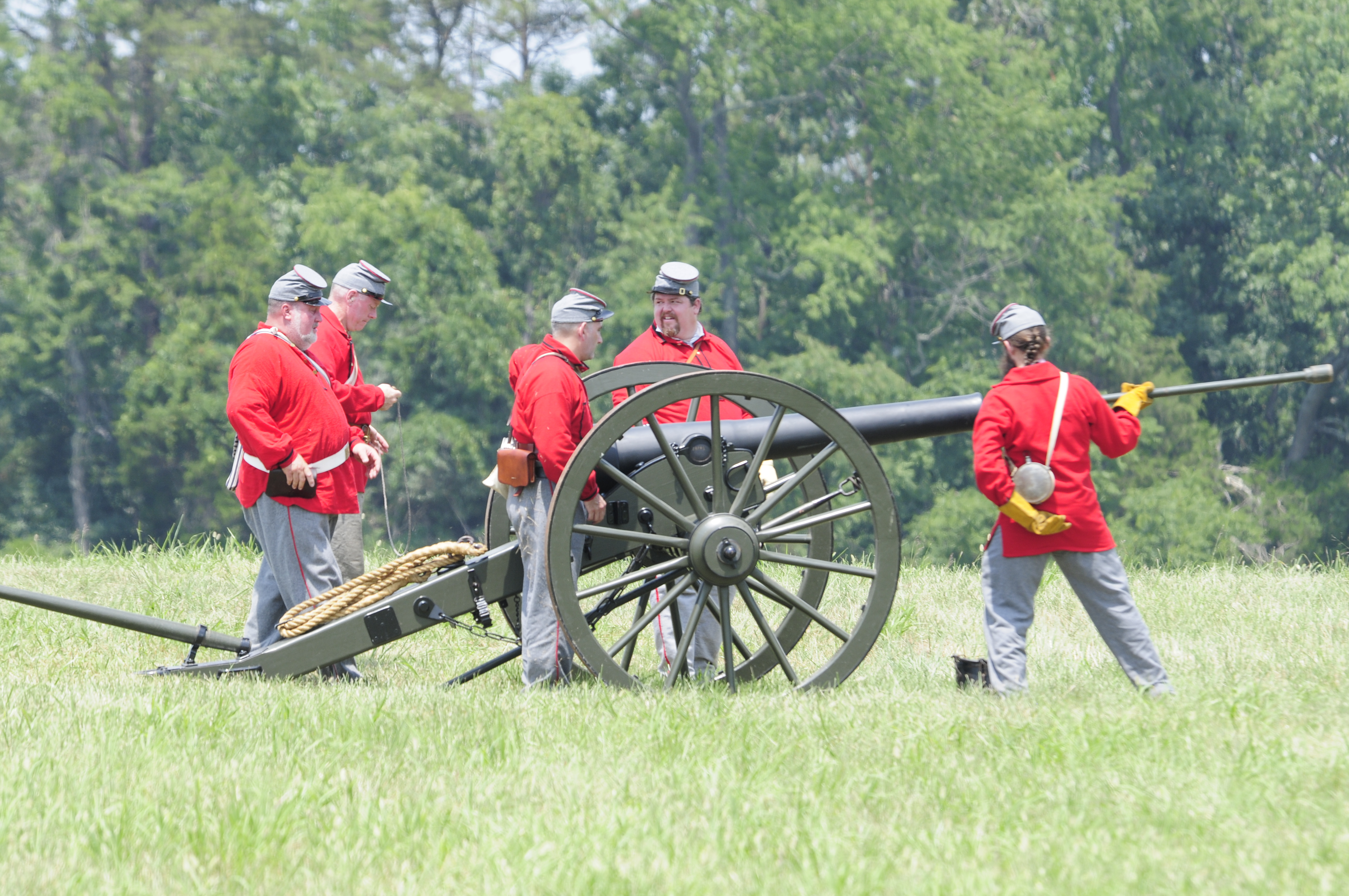 Living history soldiers load a cannon for an artillery demonstration